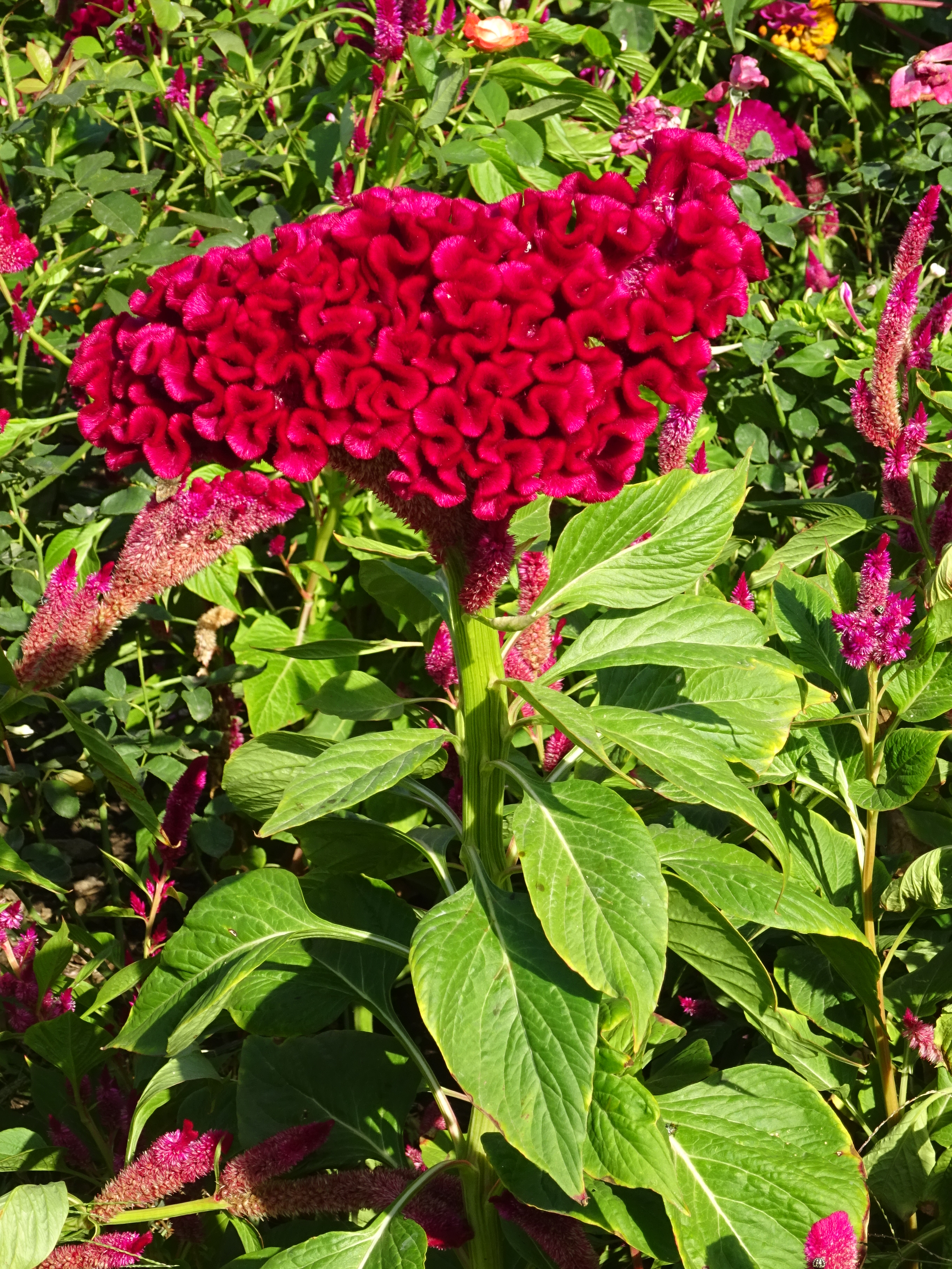 Celosia argentea var. cristata